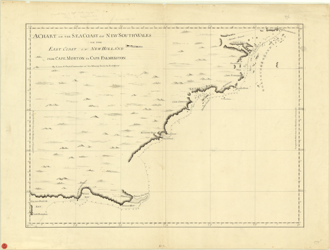 This map is one of four manuscript charts from the first great voyage of exploration by Captain James Cook, which in April 1770 made the first clear delineation of the east coast of Australia. Sponsored by the Royal Society and the Royal Navy, the expedition had several objectives. Cook was to observe and describe the transit of Venus, chart the coastlines of places he visited in the South Pacific, and record details of the peoples, flora, and fauna he saw. The expedition sponsors also hoped Cook would find and claim for Britain the land then known as terra incognita australis. Cook did not sail close to shore, except in a few places, so the amount of detail shown in the map varied with his ship’s distance from the coast. Discovery and exploration